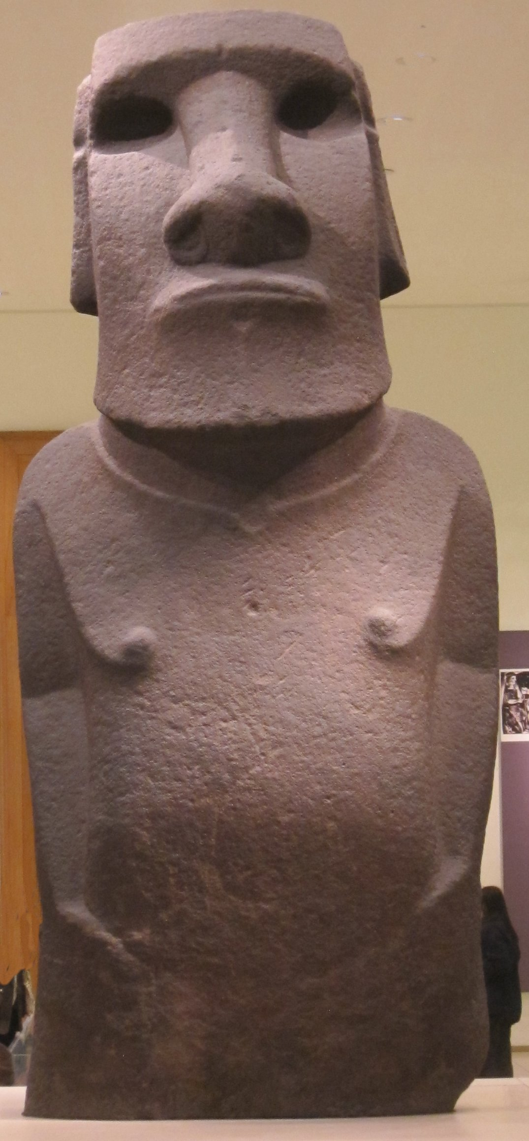 Basalt statue known as Hoa Hakananai’a, Easter Island, c. 1400, Tate Britain